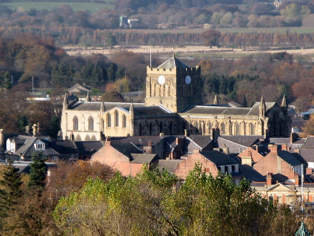 Hexham Abbey Taken from the Slaley Road (B6303) in NY9363.